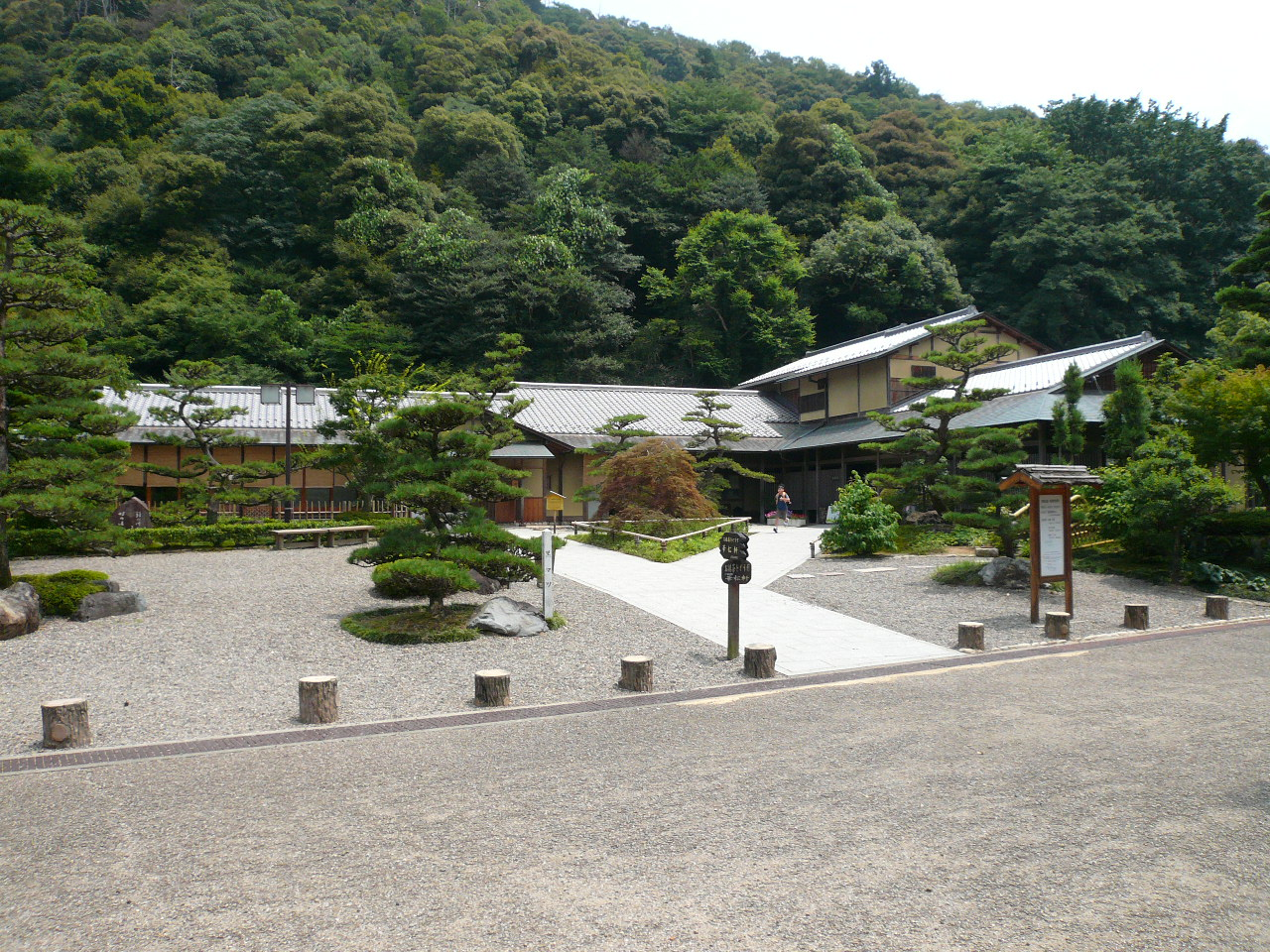 This is a picture of a tea house/rest area in Gifu Park. I took it in July 2007.